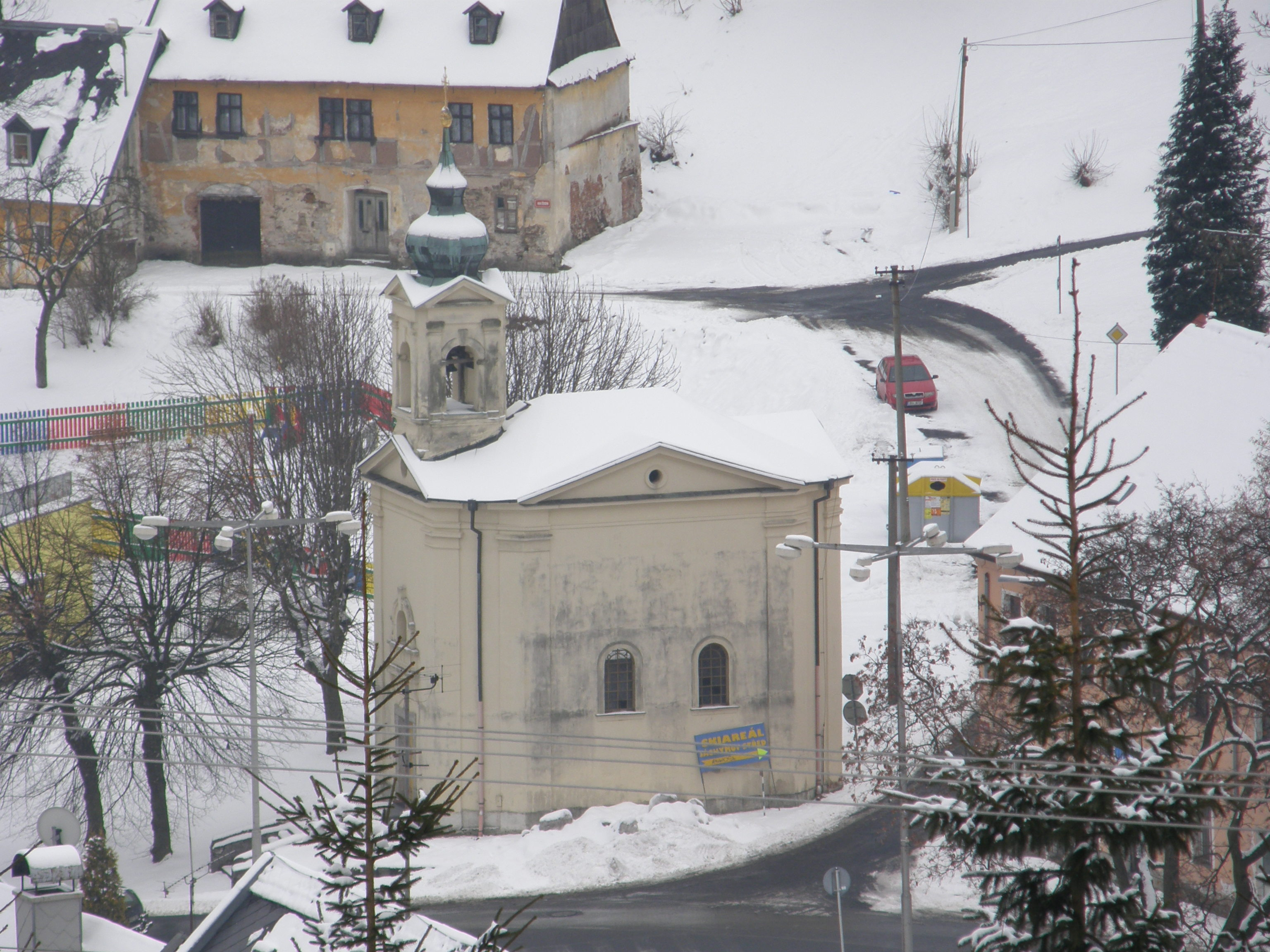 St. Anna chapel in Jáchymov, district Karlovy Vary, Czech Republic